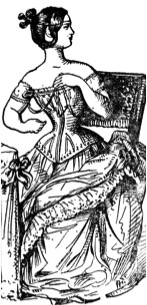 This dress features a low waistline, and the bodice is worn over the hips to further emphasise the silhouette.